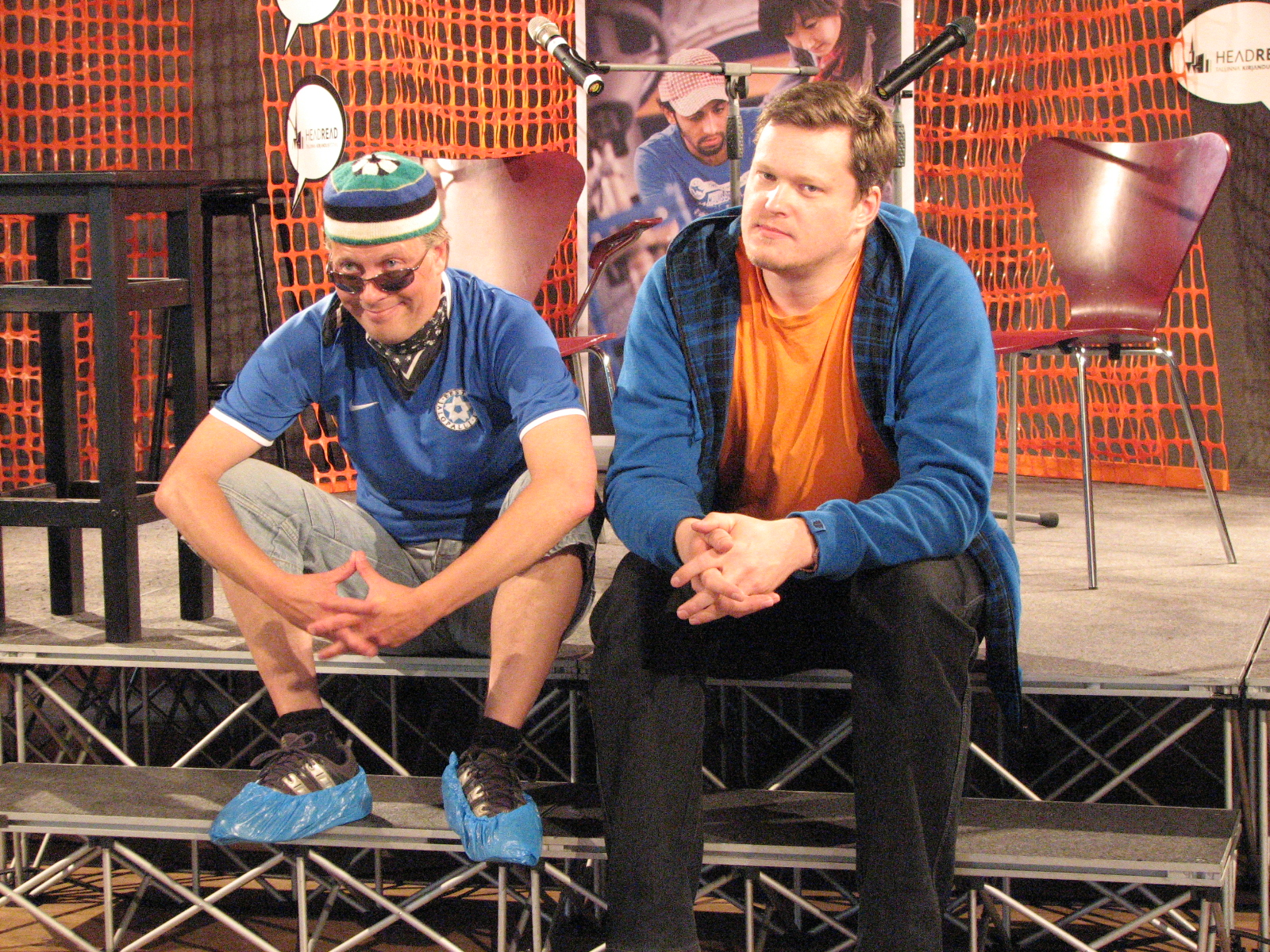 Mika Keränen and Wimberg during literature festival HeadRead